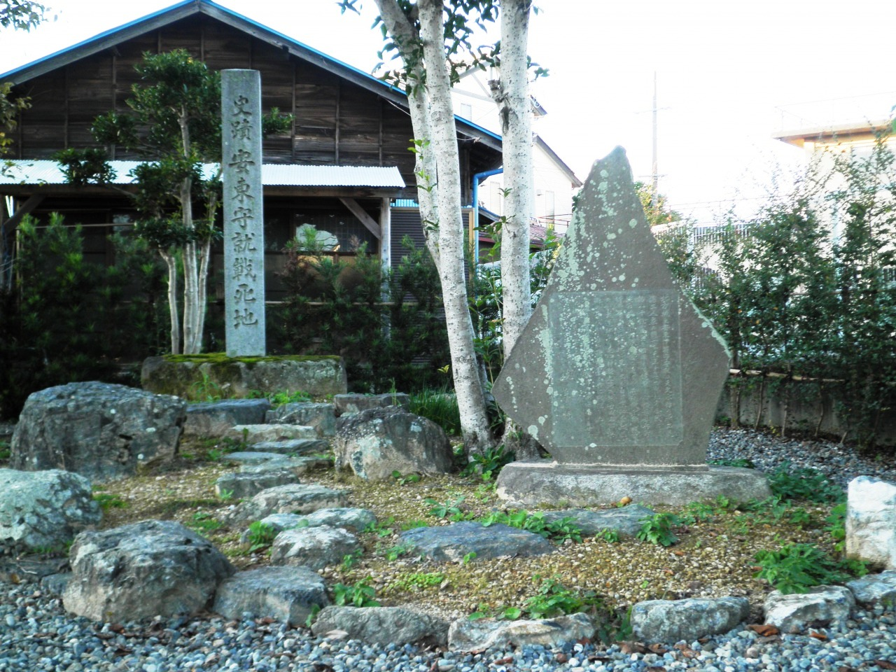 Andō Morinari's Deathplace located in Kitagata, Gifu.